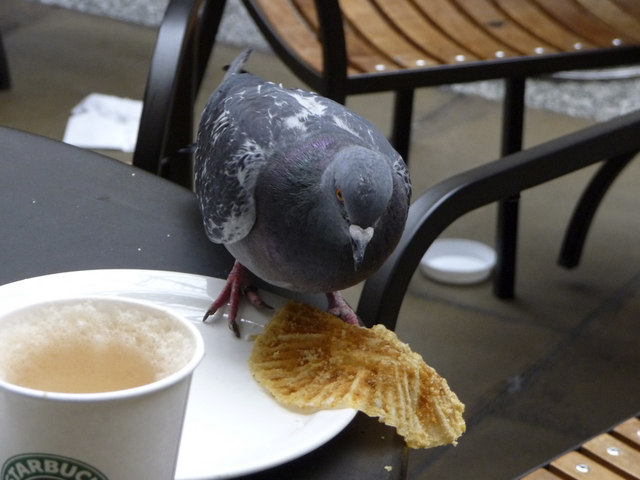 Opportunist - Feral Pigeon (Columba livia). As soon as I'd finished my coffee and muffin and stood up to leave the pigeon which had been hovering pounced and started pecking the cake case.